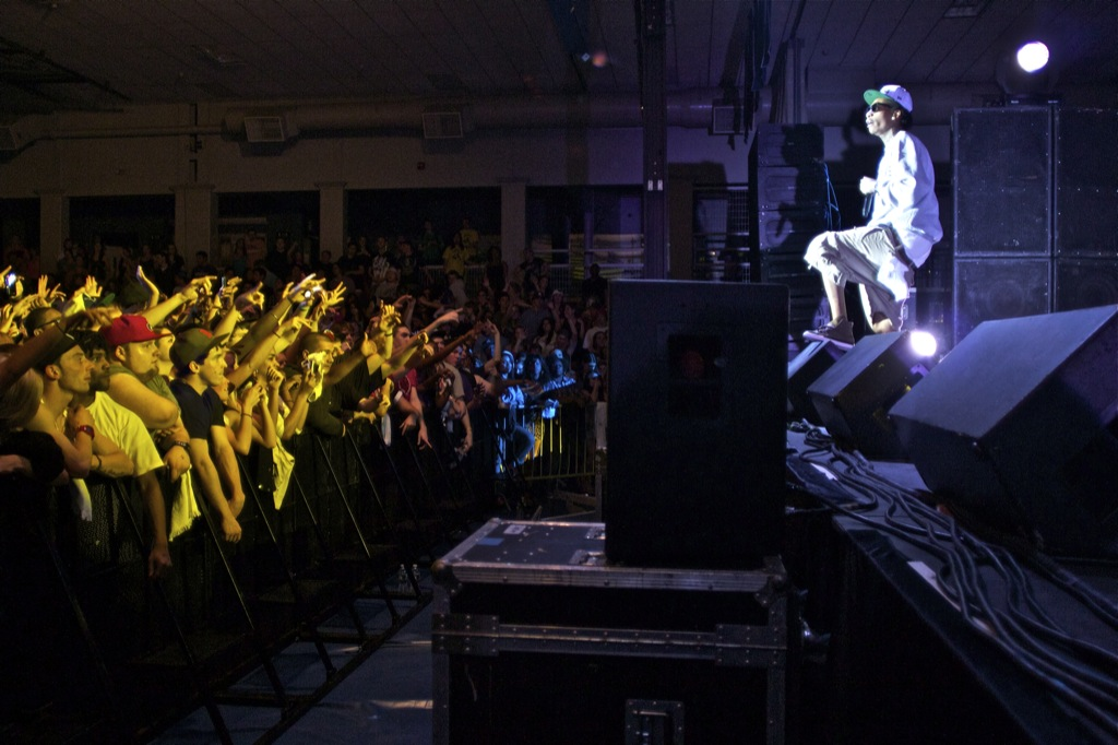 Wiz Khalifa performing at Colby College on May 6, 2011.